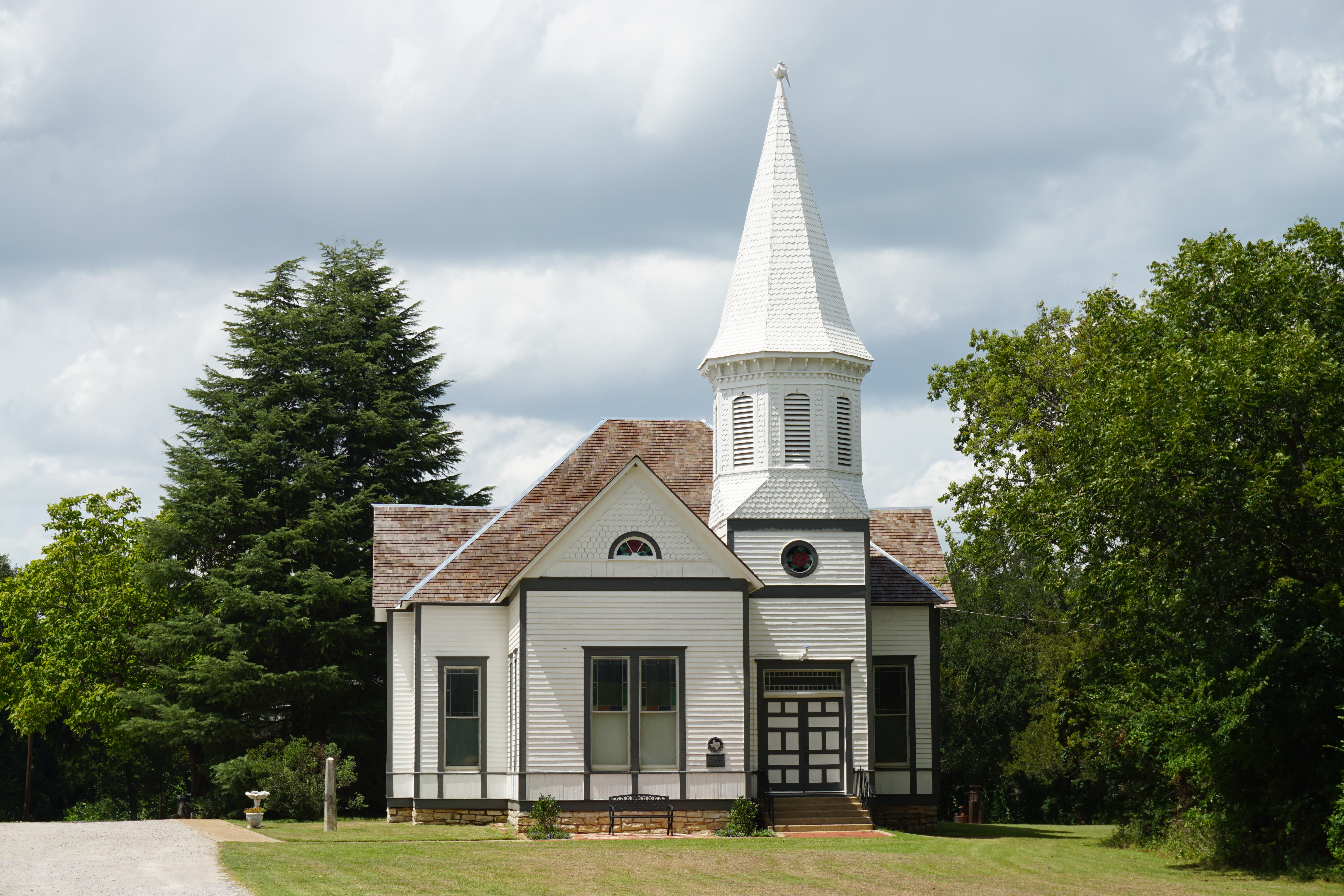 The Chapel on the Bosque at the Stephenville Historical House Museum in Stephenville, Texas (United States).